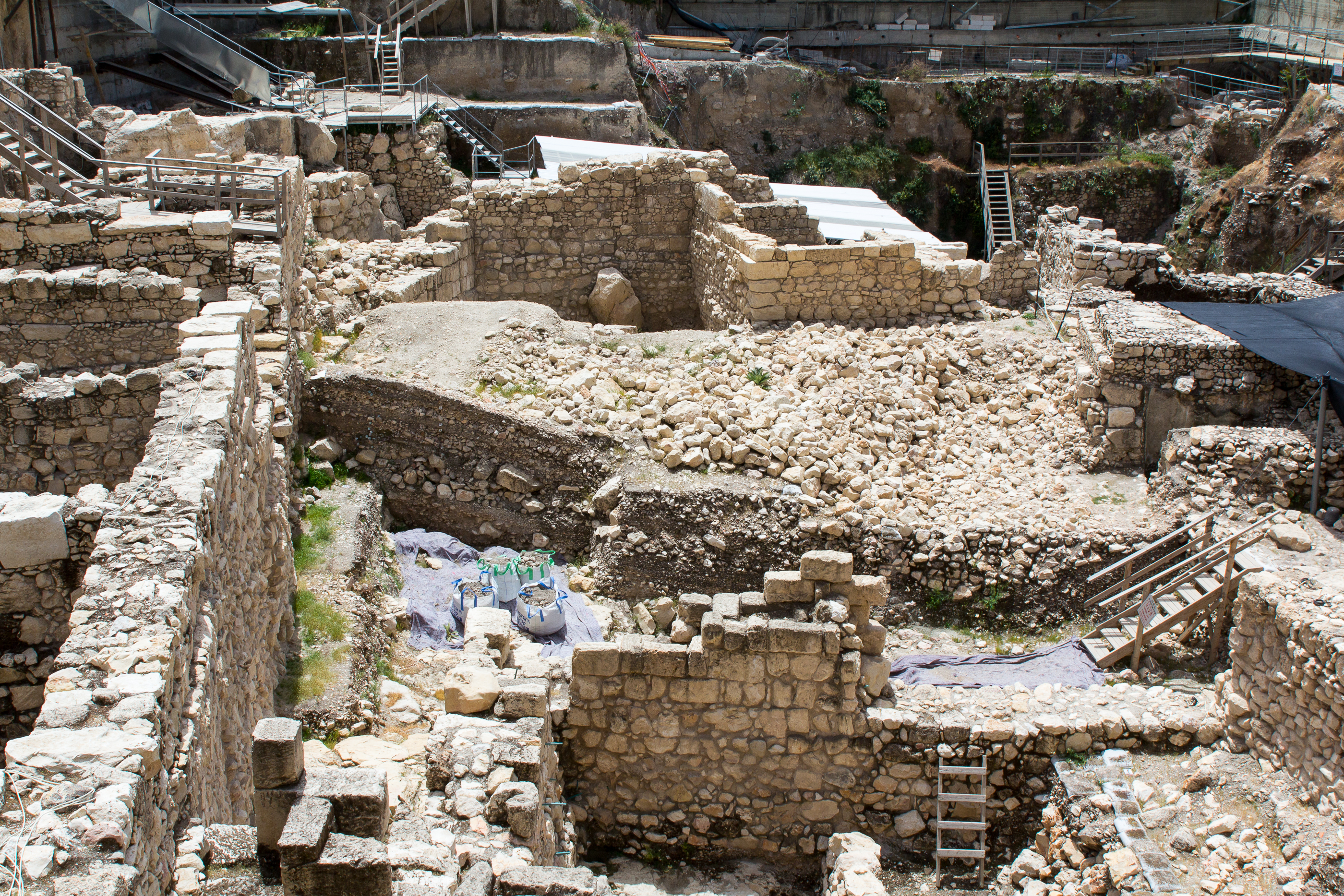 Excavations at the Givaty Parking Lot dig. The lower levels of a glacis associated with the Seleucid Acra in beautiful cross-section. The wall this abuts and which is therefore attributed to the Acra, is not the one on the left, nor the one at the back (both Roman), but the diagonal wall connecting the two.